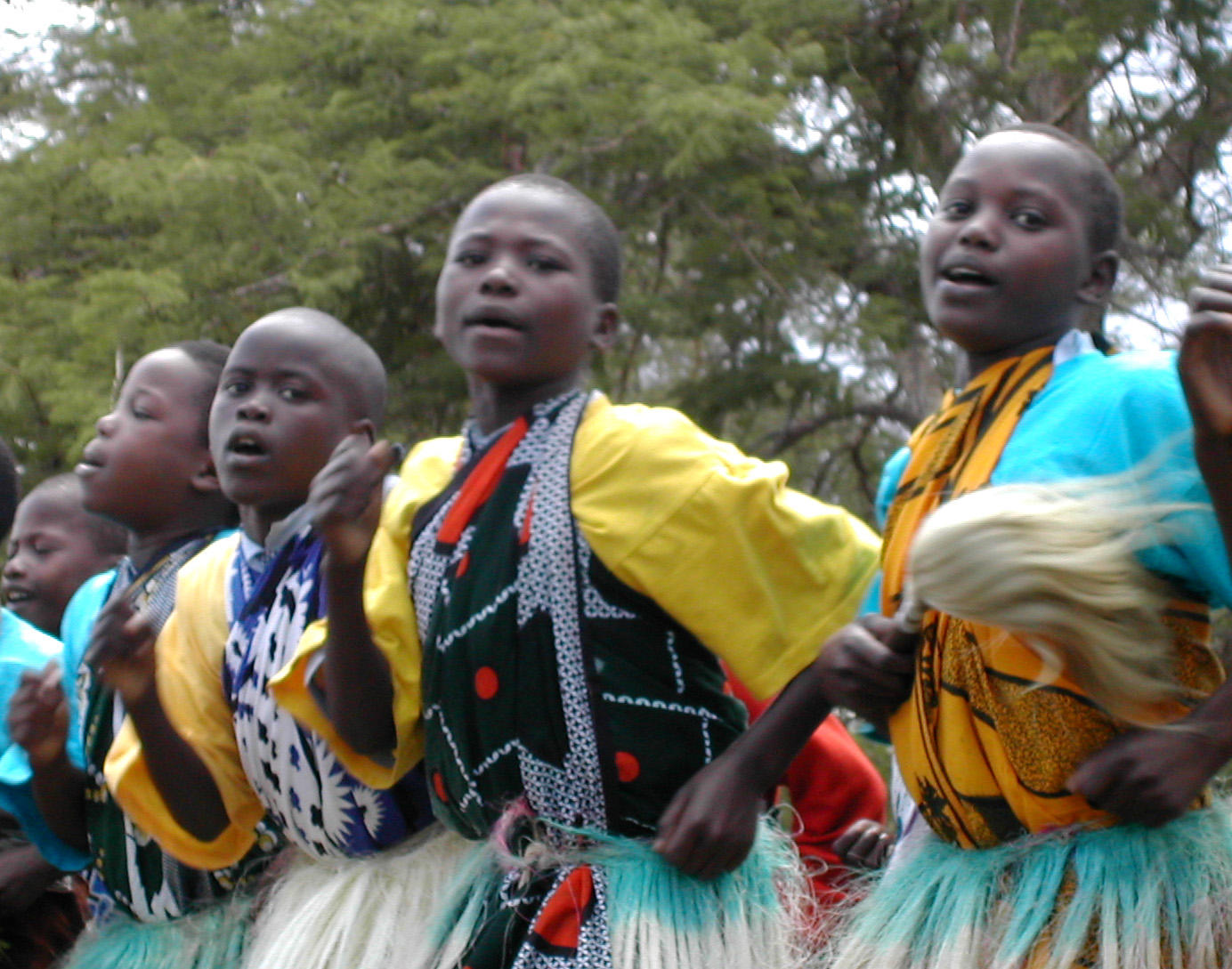 the older boys and girls at the school put on a wonderful dance and singing program for us., from both the Luo and Kurea traditions.